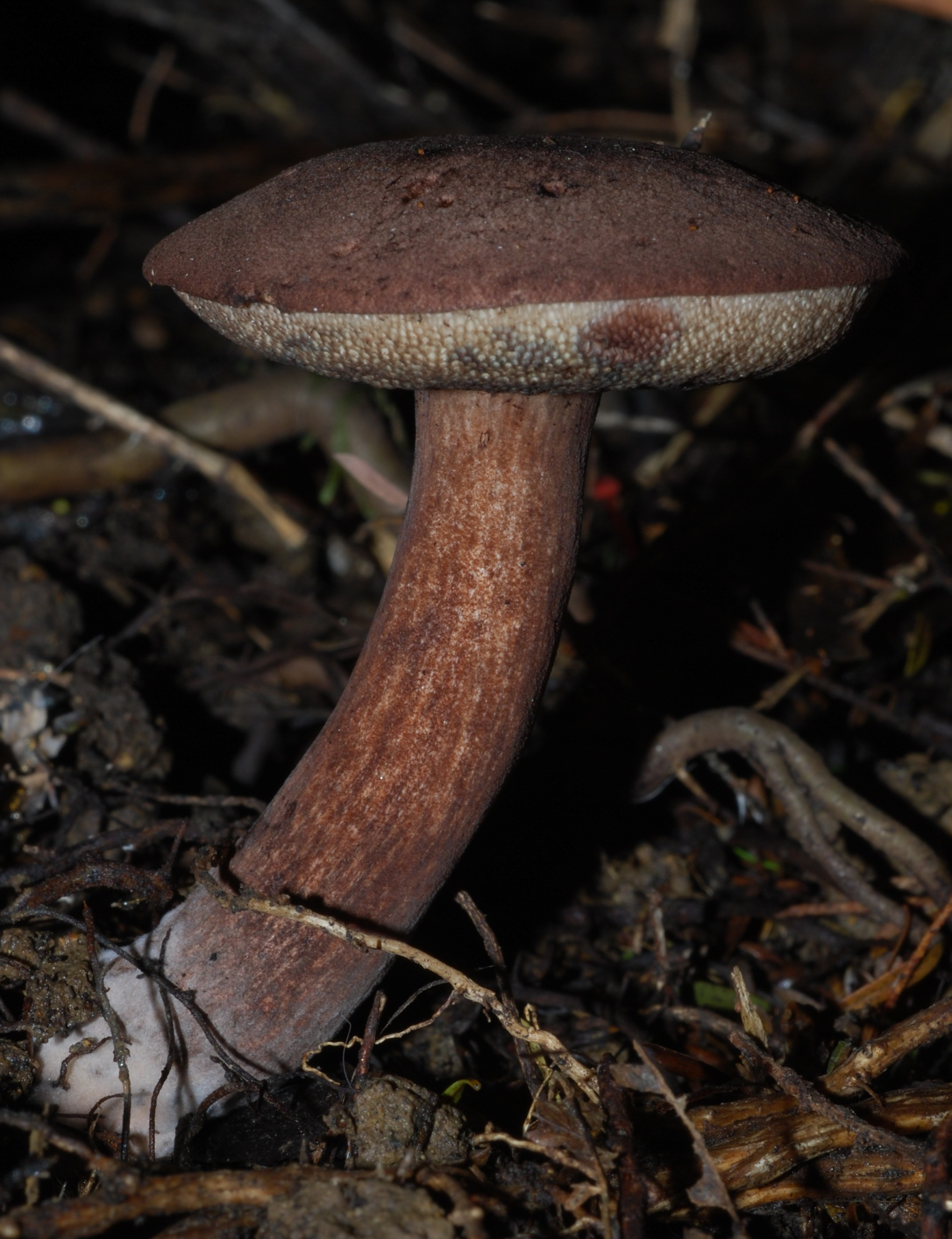 Tylopilus brunneus Location: Auckland, New Zealand Notes: On soil under Podocarpus totara in native New Zealand forest.Pileus: 20-50mm in diameter. Hemispheric to convex. Brown in colour.Stipe: 60-70mm long by 10-15mm in diameter. Even to slightly enlarged towards the base. Brown in colour.Pores: Hexagonal in shape, 0.5-1mm in diameter. Pore surface yellow in colour, bruising deep blue where damaged then slowly changing to brown.Spore deposit: light brown.